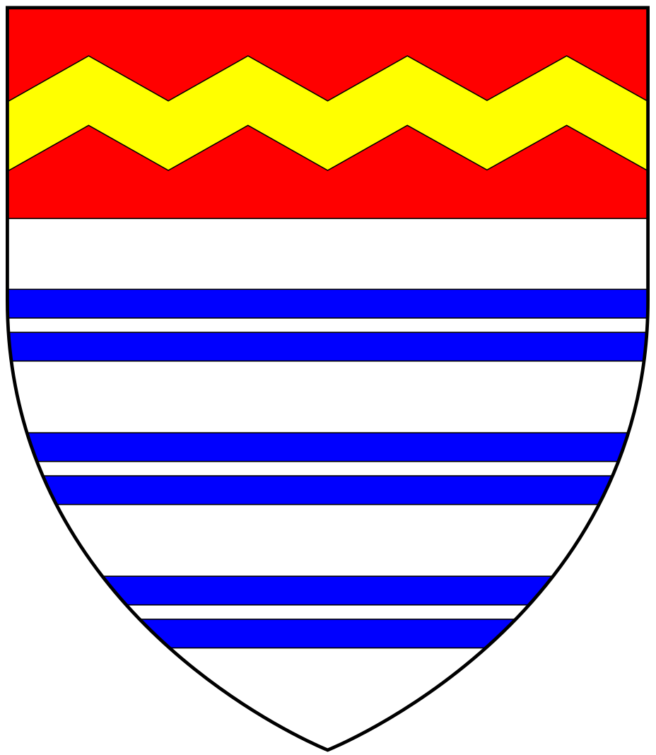 Arms of Haydon of Cadhay in the parish of Ottery St Mary, and of Ebford in the parish of Woodbury, Devon: Argent, three bars gemels azure on a chief gules a fess dansettée or. (Source: Vivian, Lt.Col. J.L., (Ed.) The Visitation of the County of Devon: Comprising the Heralds' Visitations of 1531, 1564 & 1620, Exeter, 1895, p.458)